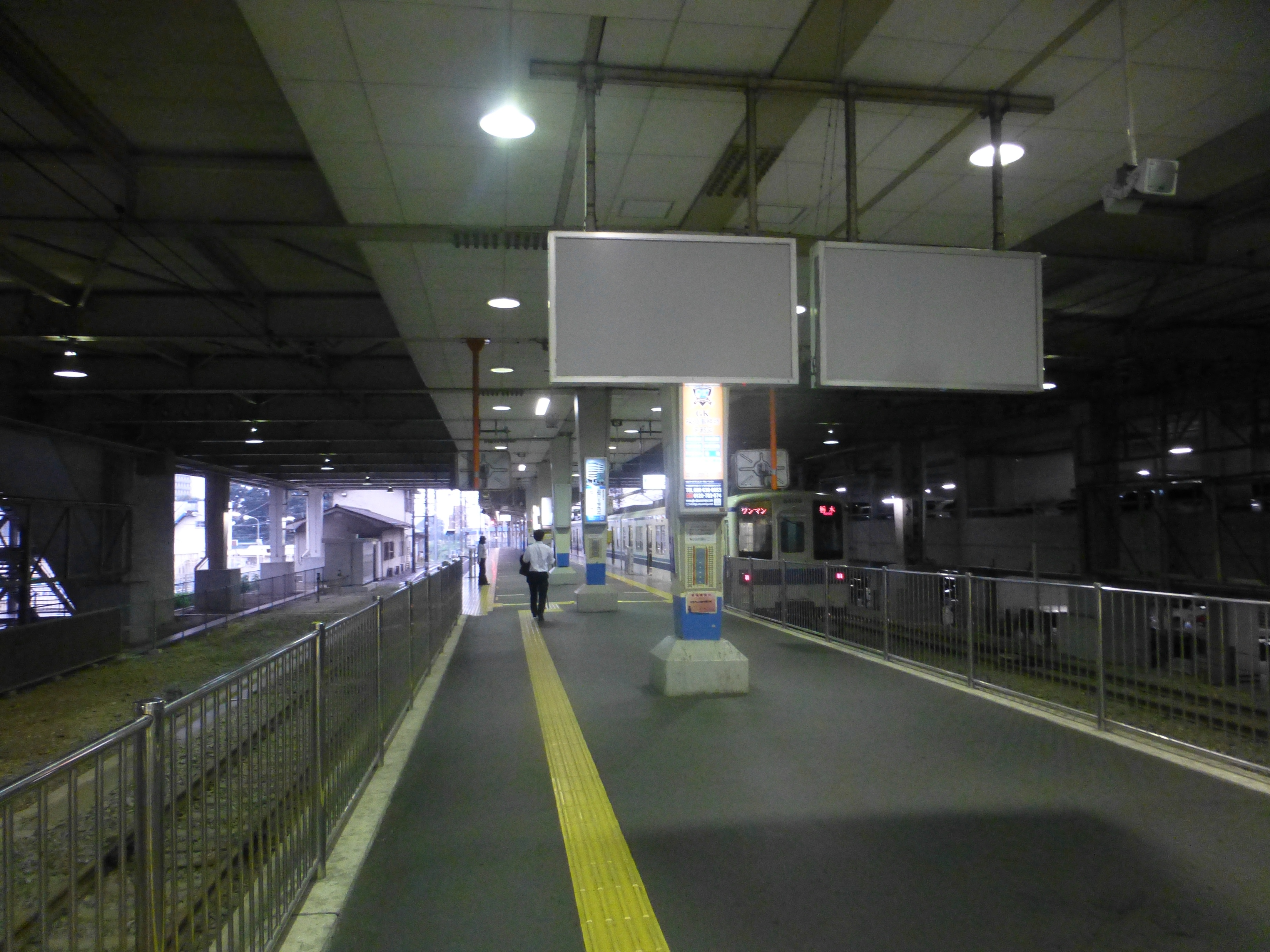 東武宇都宮駅のホーム (Tobu Utsunomiya Station platform)